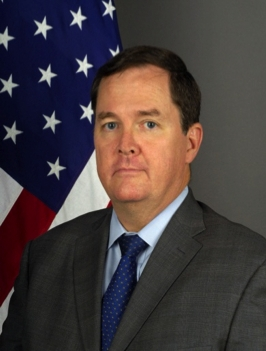 Thomas O. Melia, Deputy Assistant Secretary of State, Bureau of Democracy, Human Rights, and Labor (DRL)